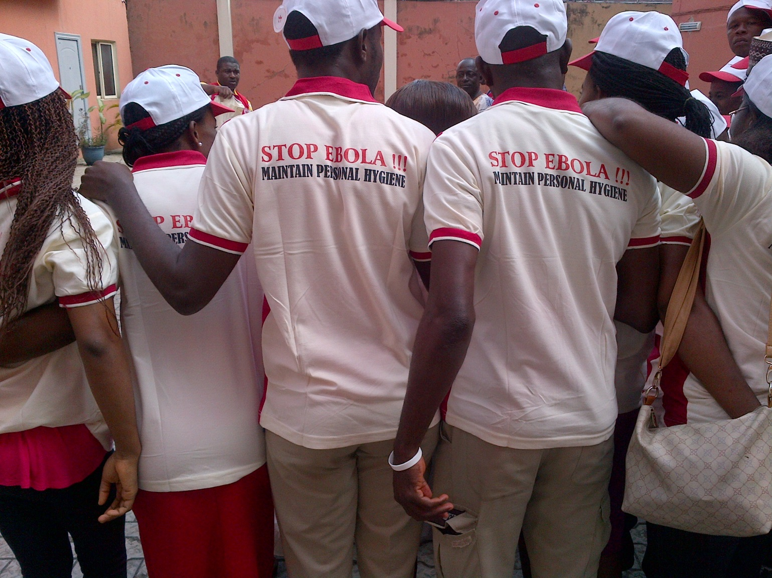 Kudos to all of the volunteers on the Ebola frontlines in Nigeria! For more information on Ebola and what CDC is doing, please visit